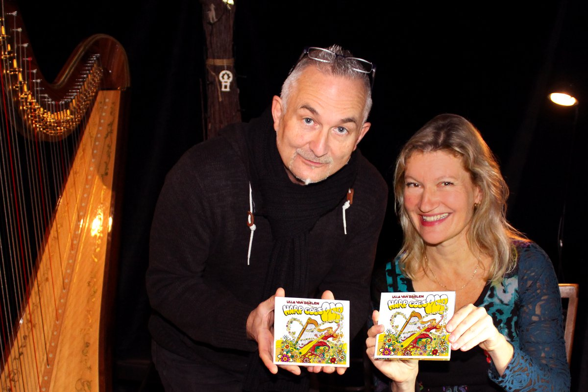 Norbert Hoeveler with Ulla van Daelen and her new Album designed by him in Grefrath (Germany)